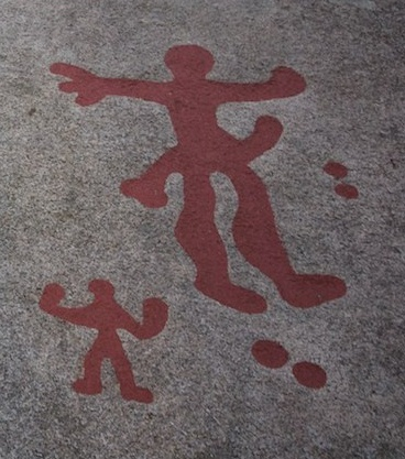 Begbymannen rock carving in Østfold, Norway